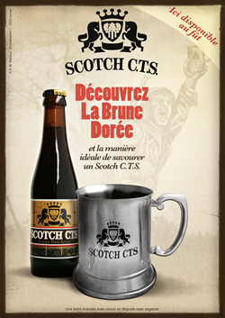 Packshot Poster French